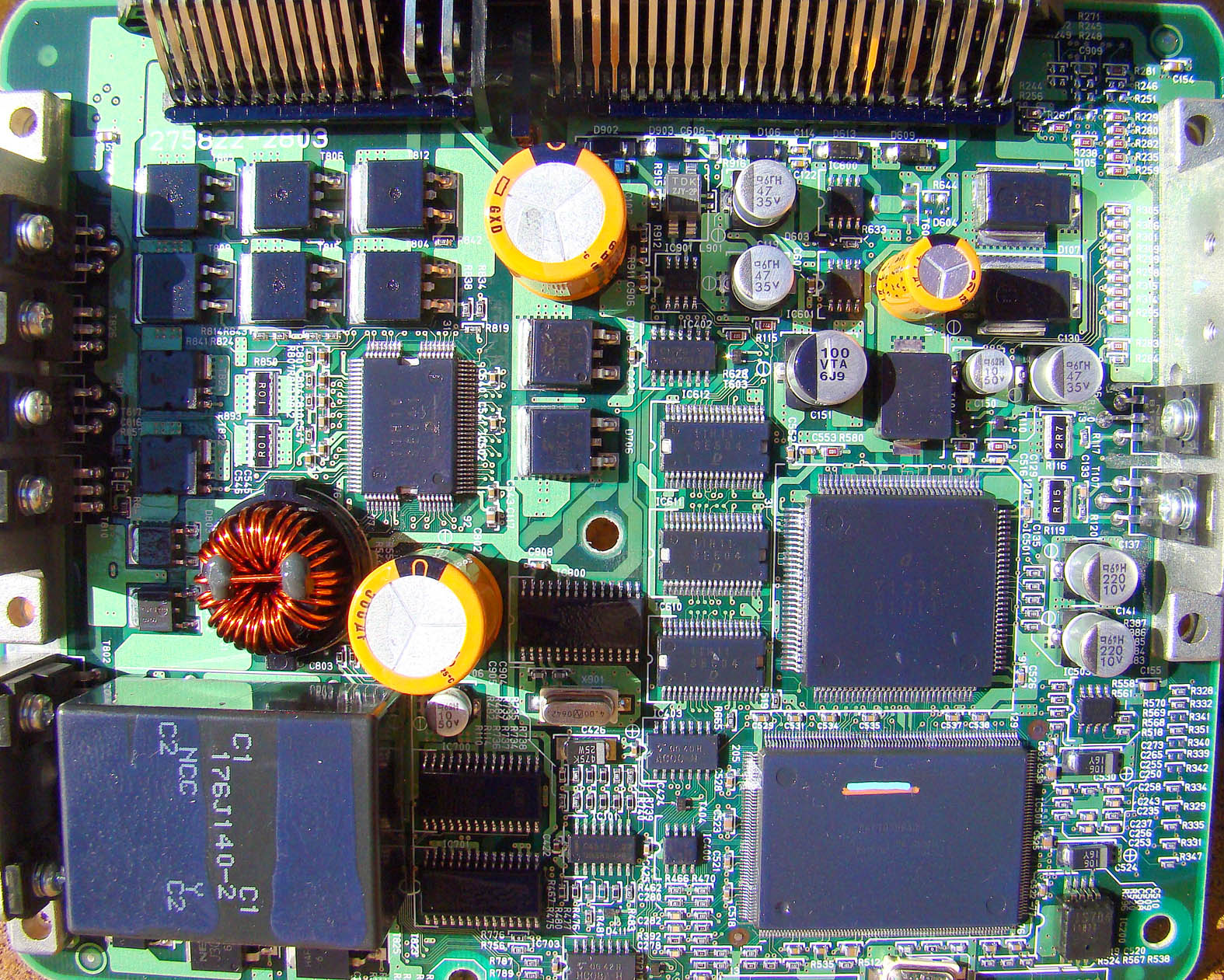 Hitachi SH-2 CPU in a Denso Diesel engine ECU.